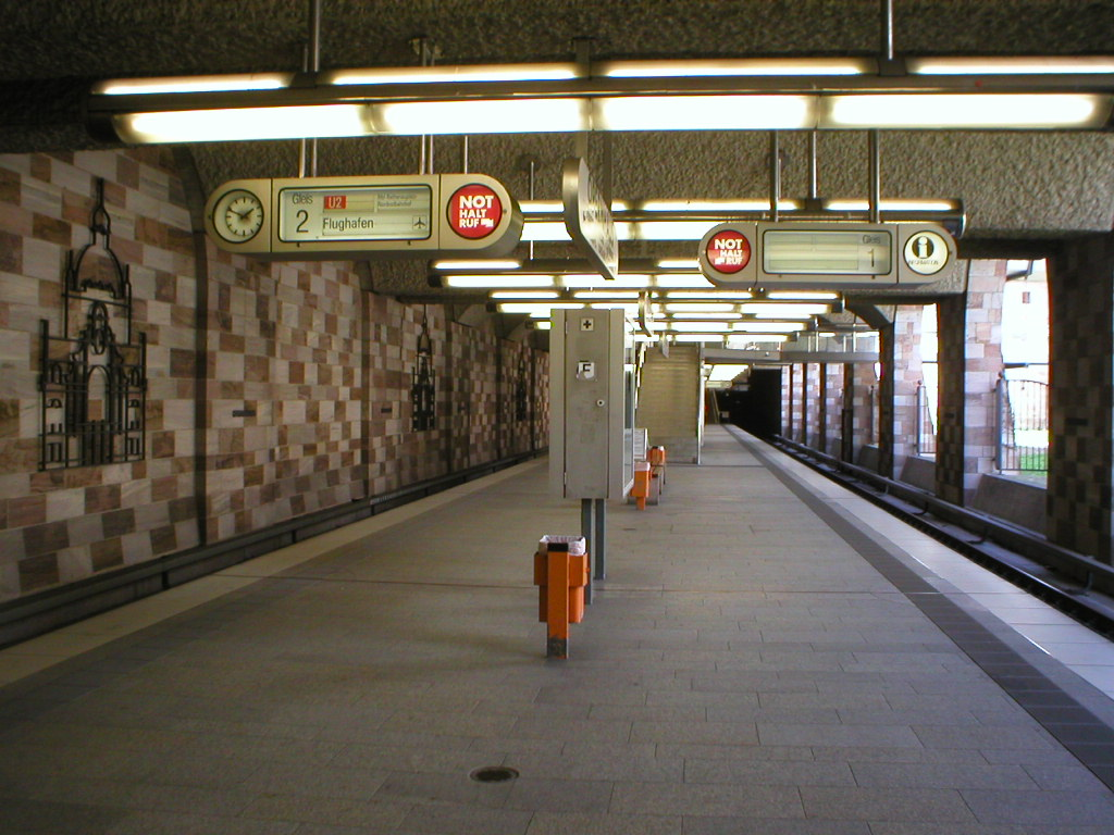 Nuremberg's underground station Opernhaus (german for opera house), lines U2 and U21, Germany